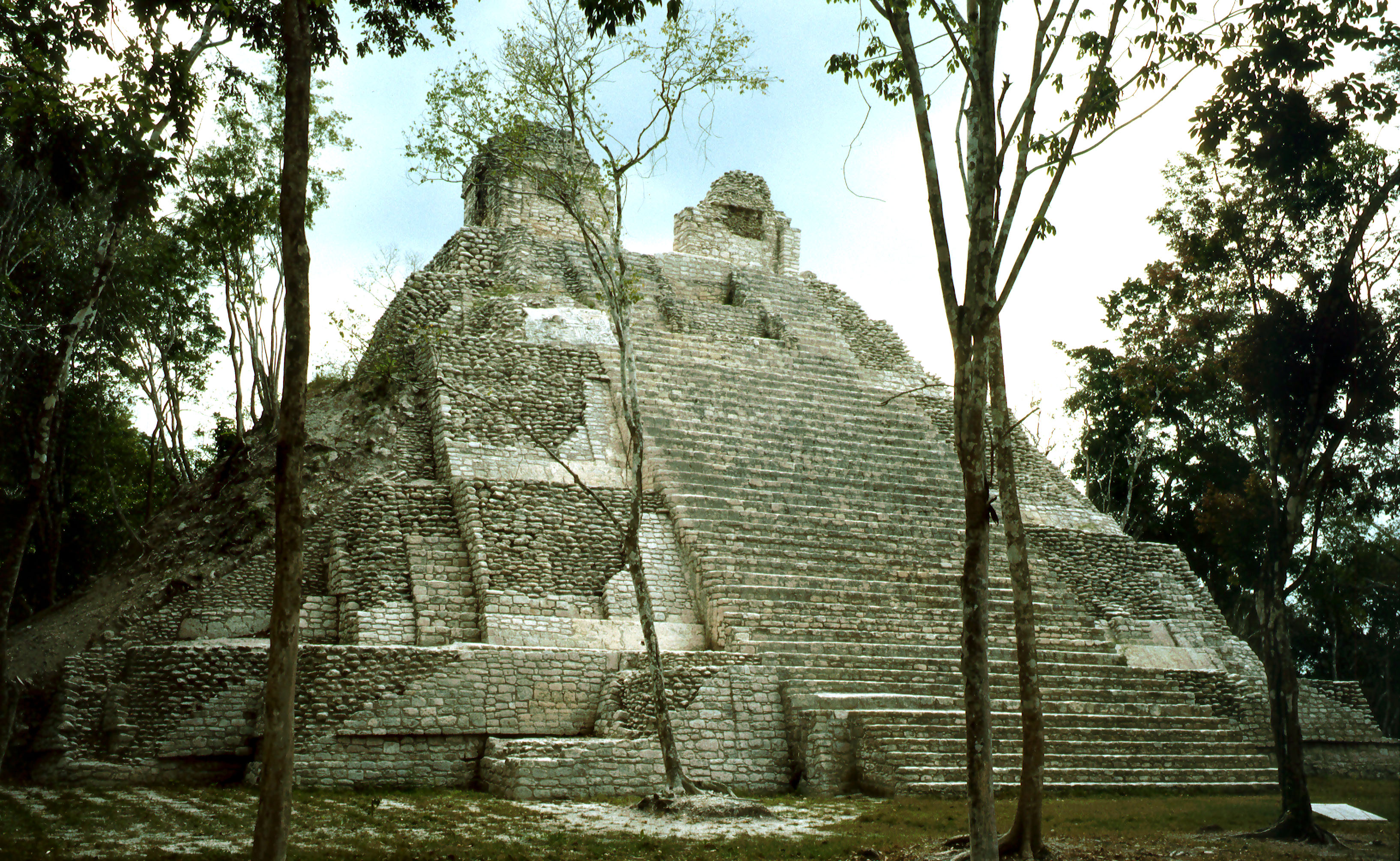 Dzibanche, Quintana Roo, Mexico.